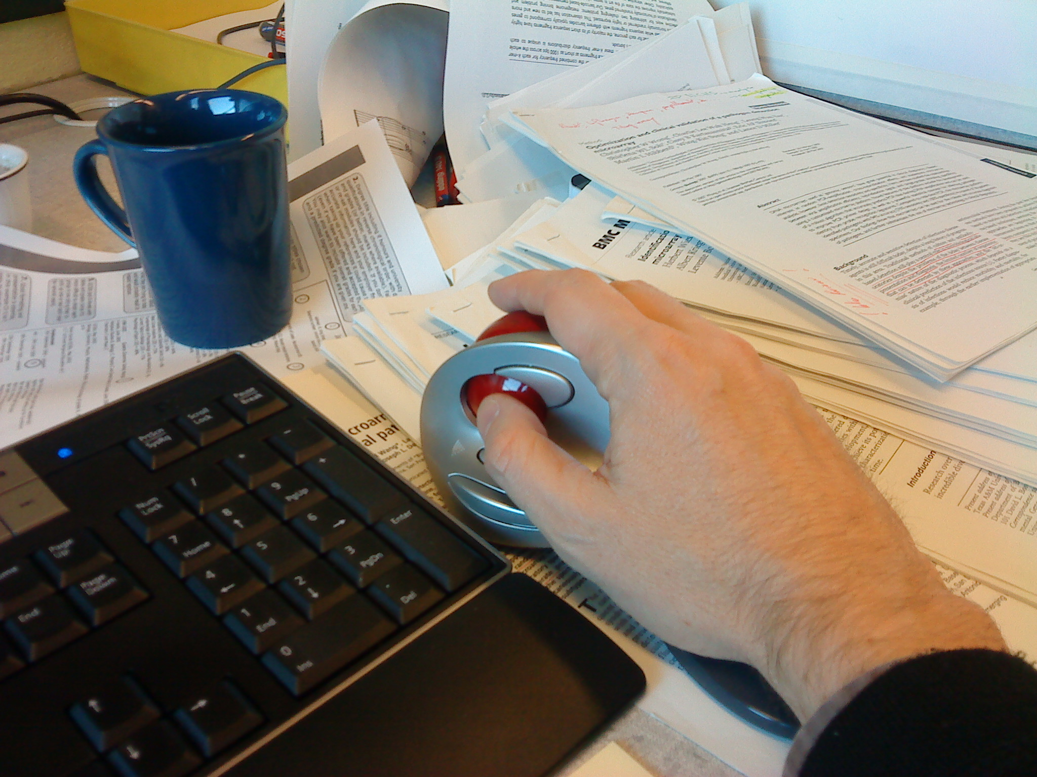 trackball